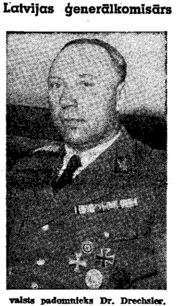 Nazi propaganda image of Otto Drechsler, Nazi occupation official Latvia. From Tēvija, a Latvian language newspaper published under Nazi control during the occupation.